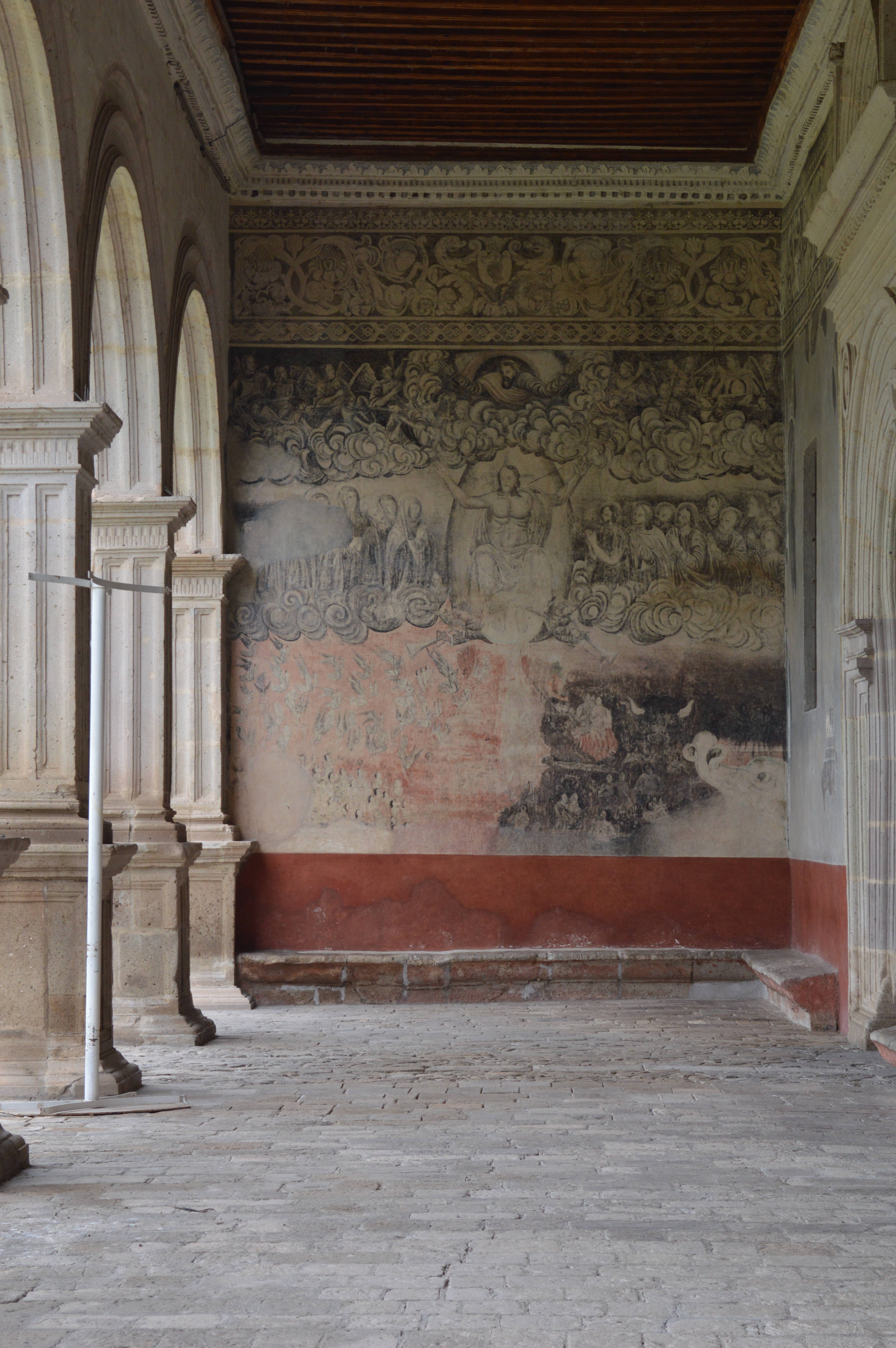 Open chapel with mural remains at the Santa Maria Magdalena church and monastery in Cuitzeo, Michoacan